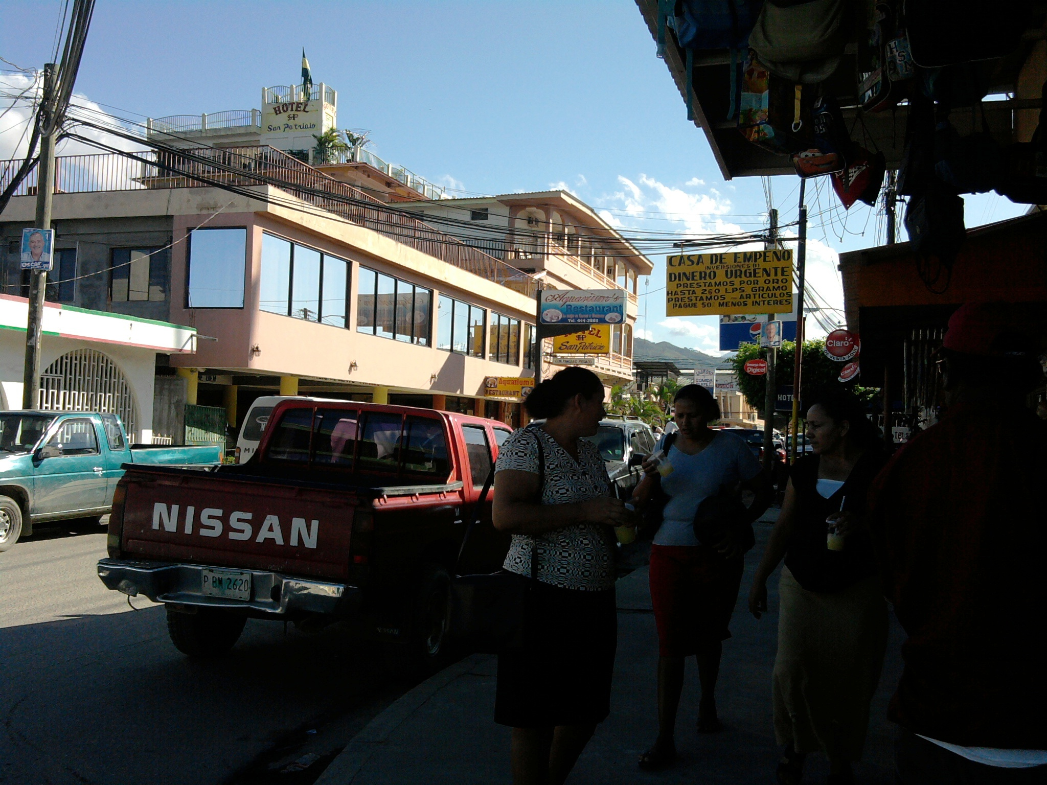 Una tipica vista del diario vivir en las calles de Tocoa